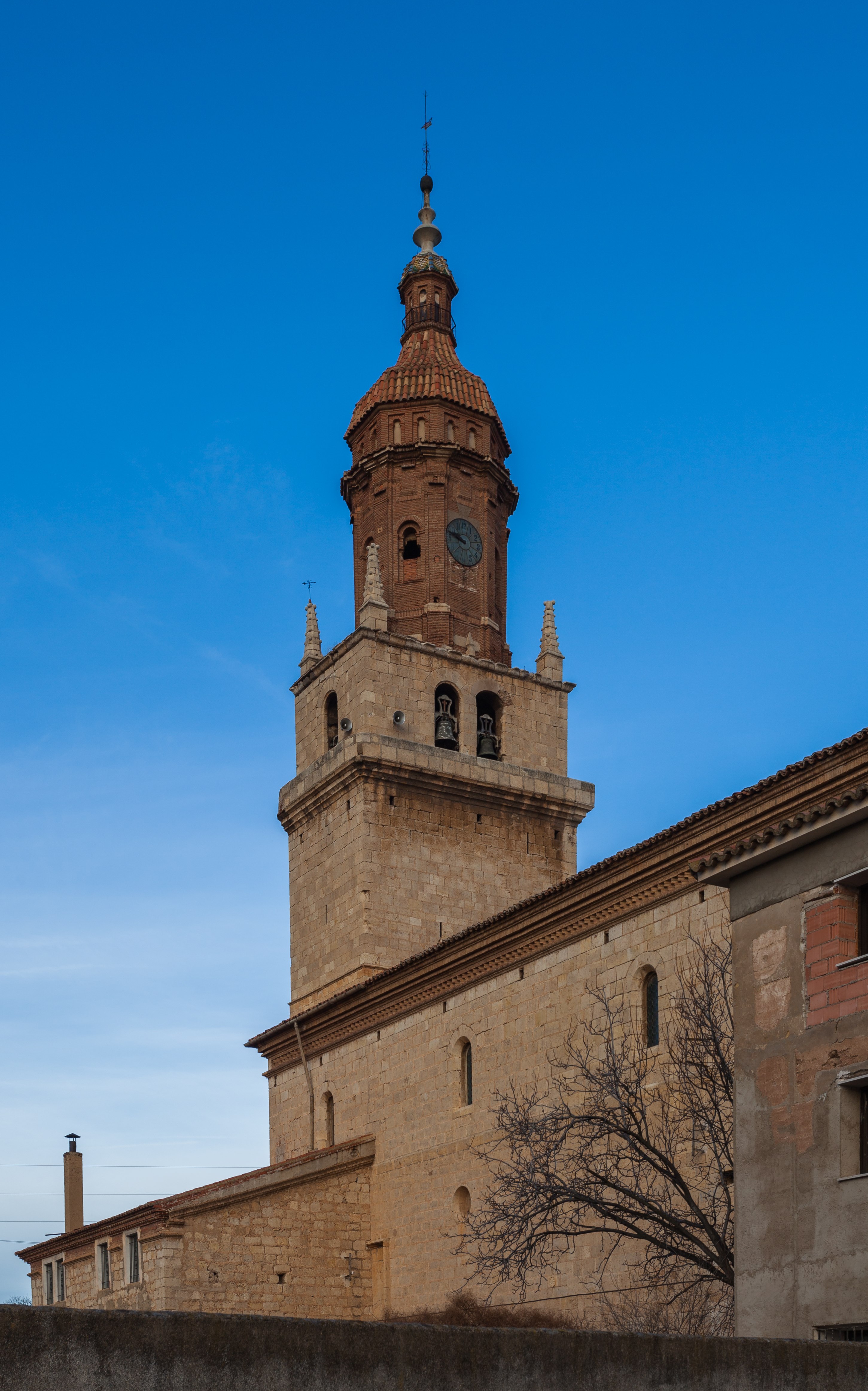 St Mary church, Calamocha, Teruel, Spain